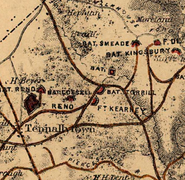 Closeup of Map of American Civil War defenses of Washington, D.C. in 1865. US Government document, War Department (1865). Closeup shows Tenallytown (Tenlytown) area.